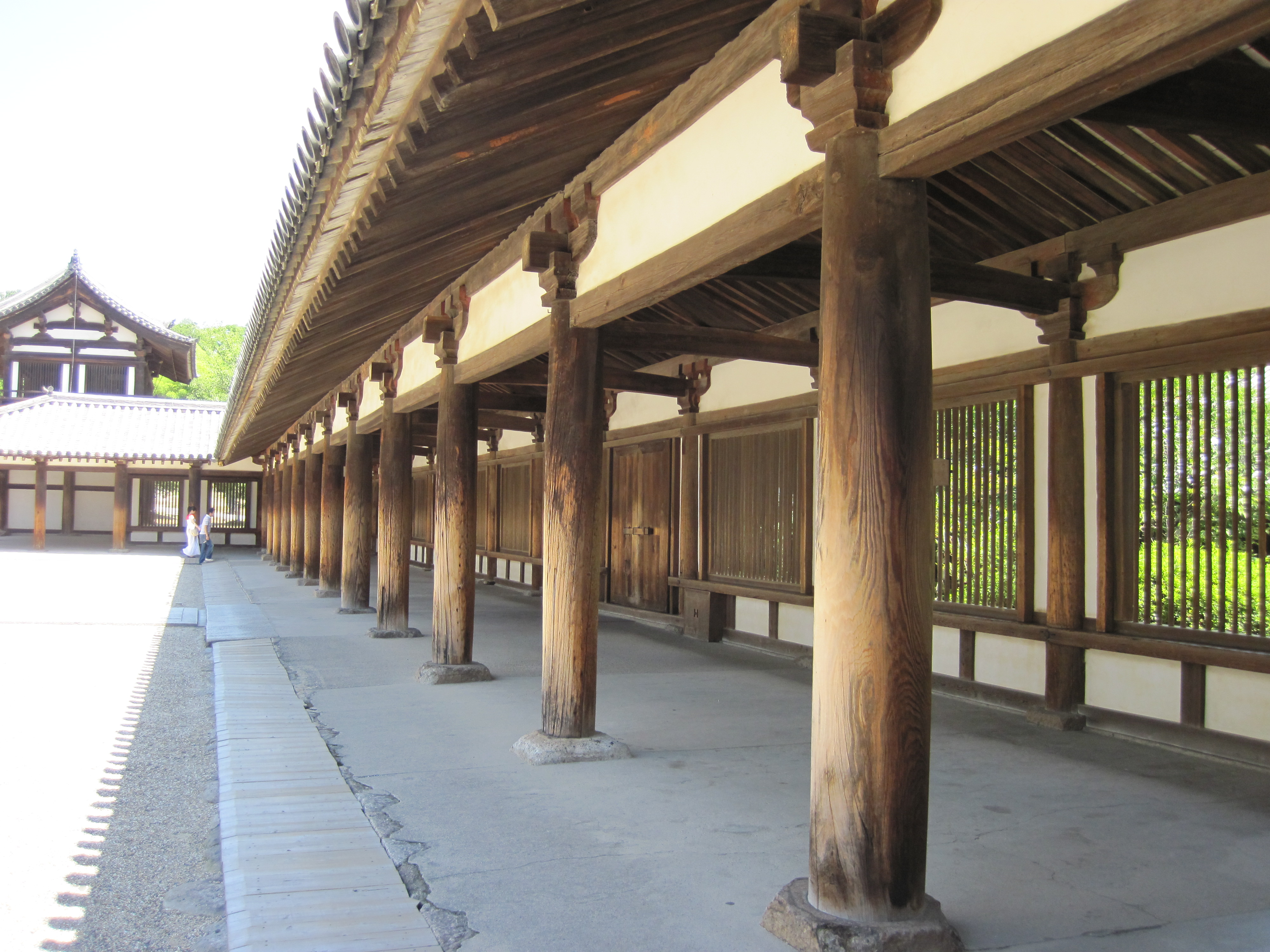 Horyu-ji National Treasure World heritage 国宝・世界遺産法隆寺